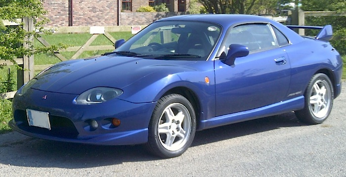 A Mitsubishi FTO GPX facelift model (post '97), with 'aero' spoiler option, in Icecelle Blue body color. For visual ref use on the data page